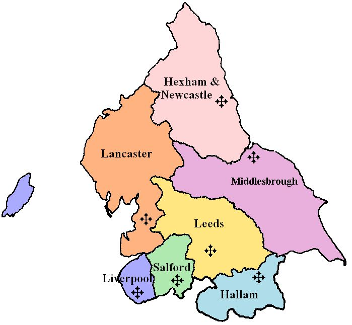 Catholic Province of Liverpool. This is a current map of the ecclesiastical province in the Catholic Church. The crosses mark where the current Cathedrals of each diocese are located. The specific dioceses are in different colours.